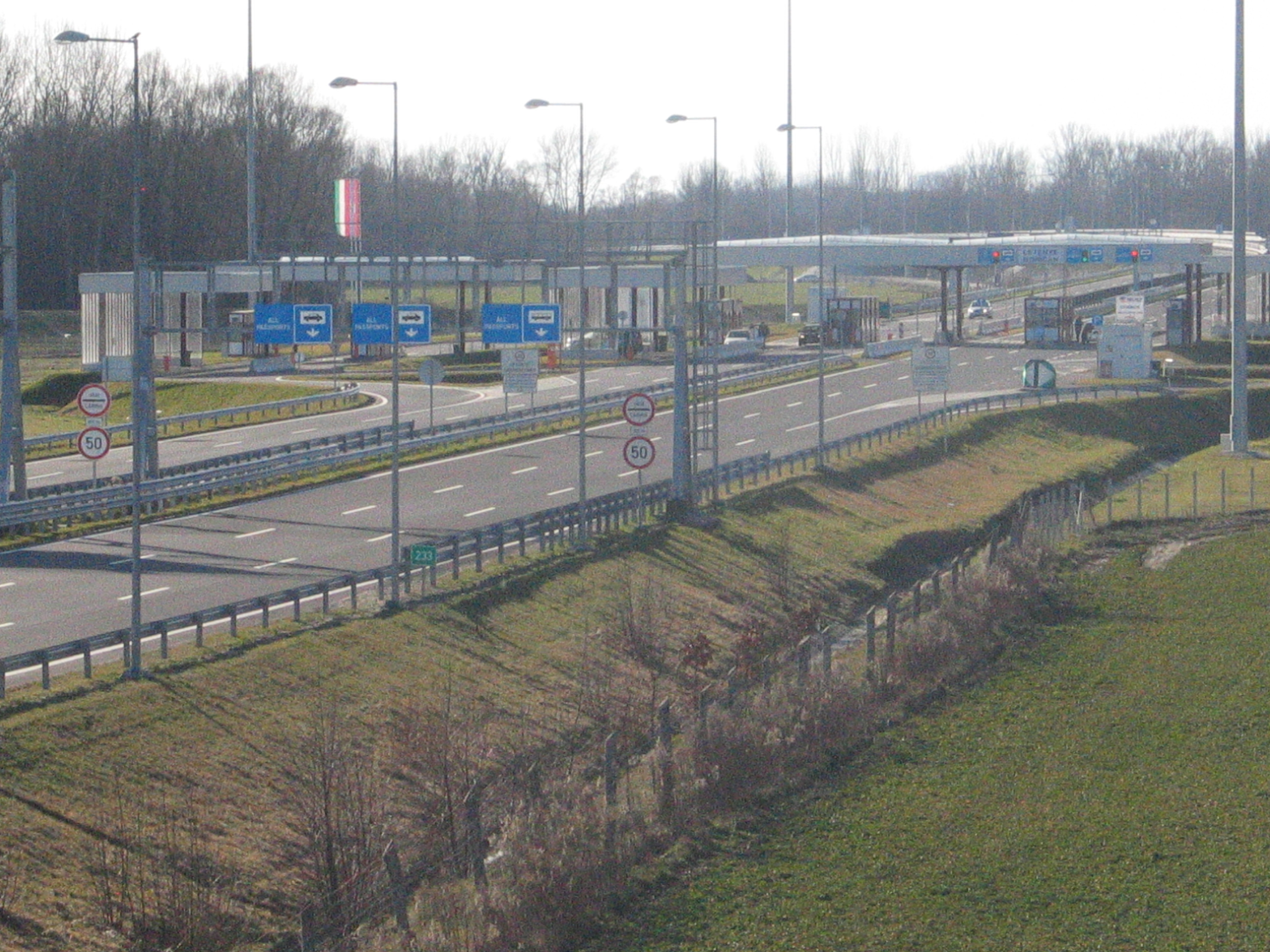 End of the M7 Motorway, Border station into Croatia; near Letenye, Hungary